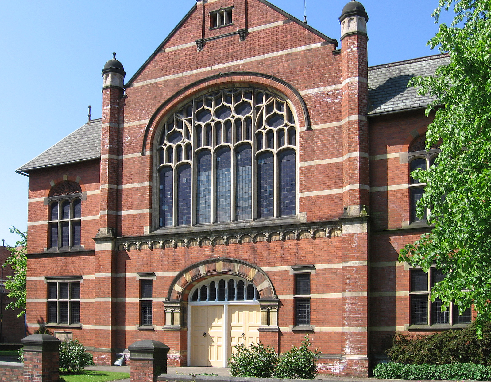 Gainsborough - United Reformed Church. A handsome church, opened in 1896, but rather over-shadowed by its neighbour, the Anglican Parish Church of All Saints (see 47454).